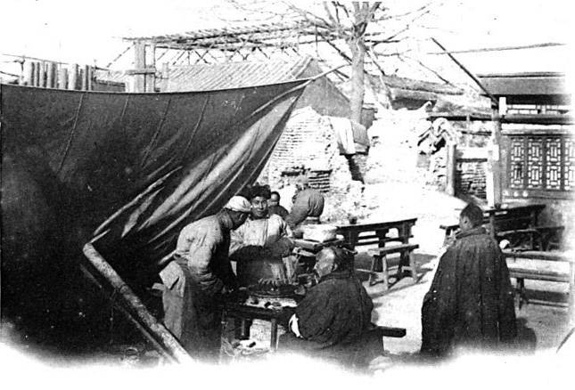 Image from La Chine à terre et en ballon.